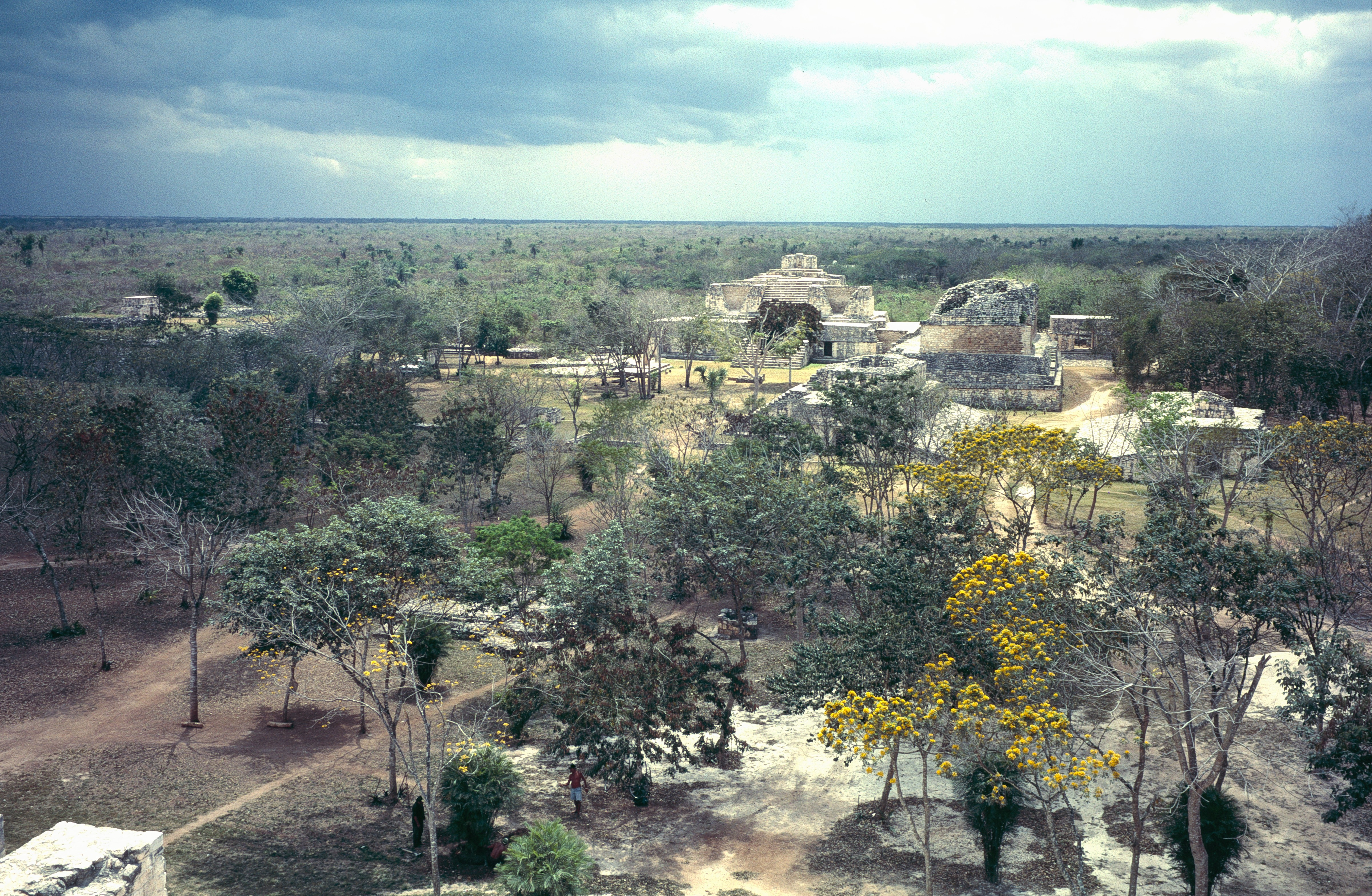 Ek Balam, Yucatan, Mexico